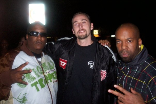 A Photo of Big Dave (rapper) I took at The Outlawz Still Breathin Tour last year